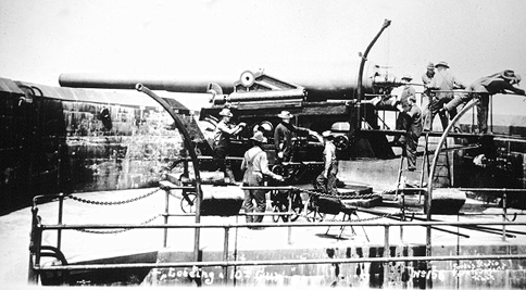 US Army 10-inch gun M1888 on barbette carriage M1893, Fort Flagler, Puget Sound, Washington.